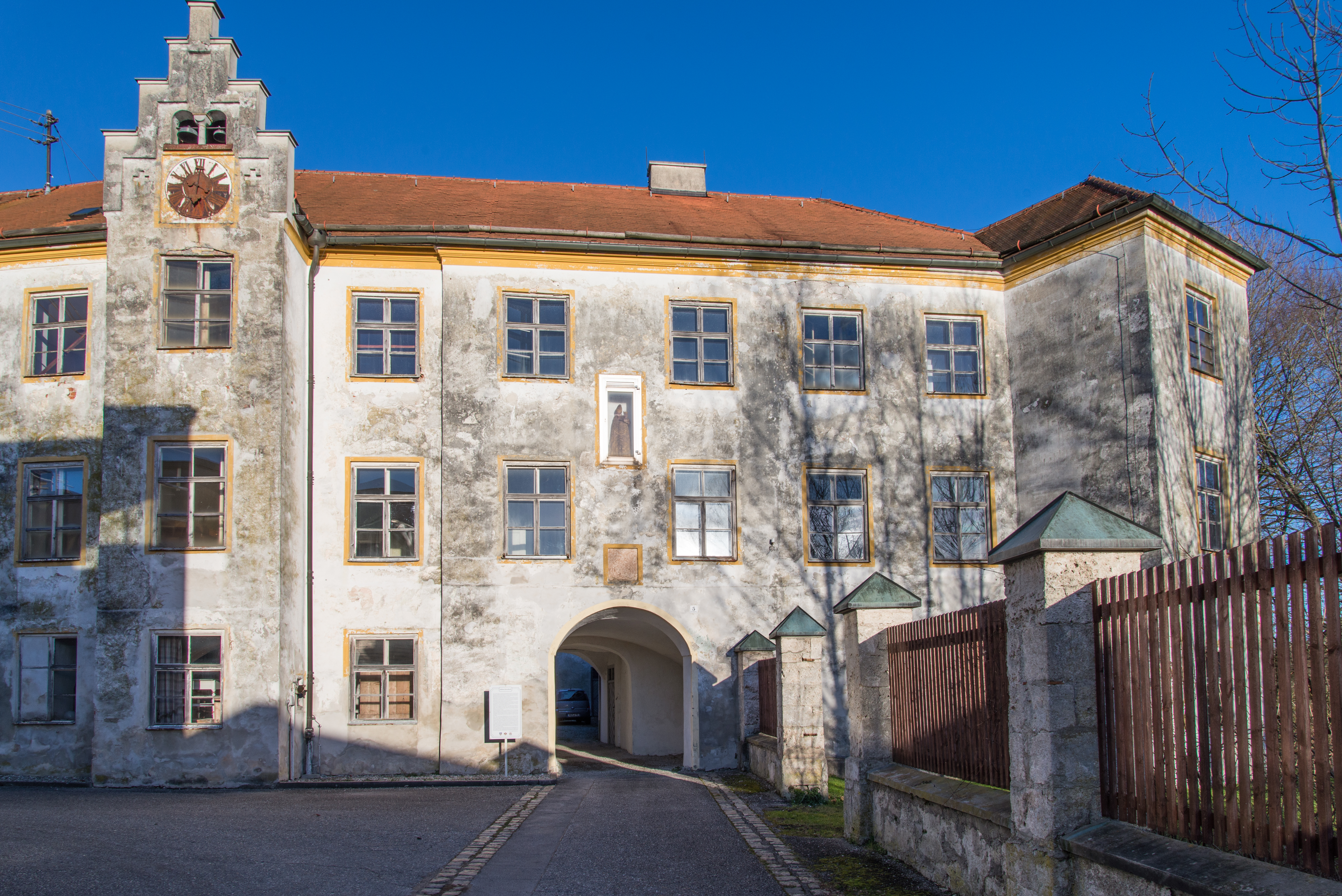 Gateway to remaining inner part of Jettenbach Castle